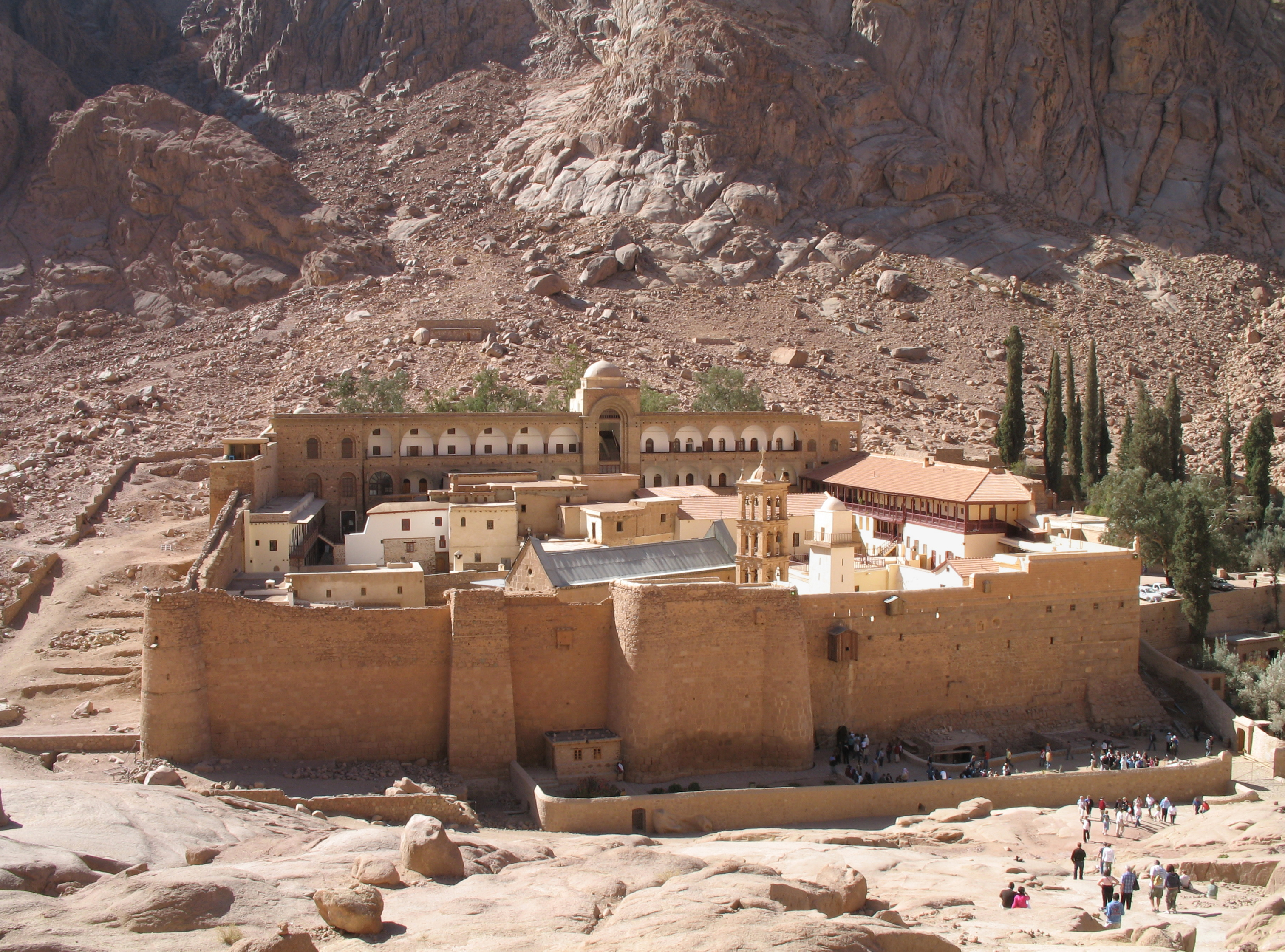 Saint Catherine's Monastery, Sinai (Egypt)